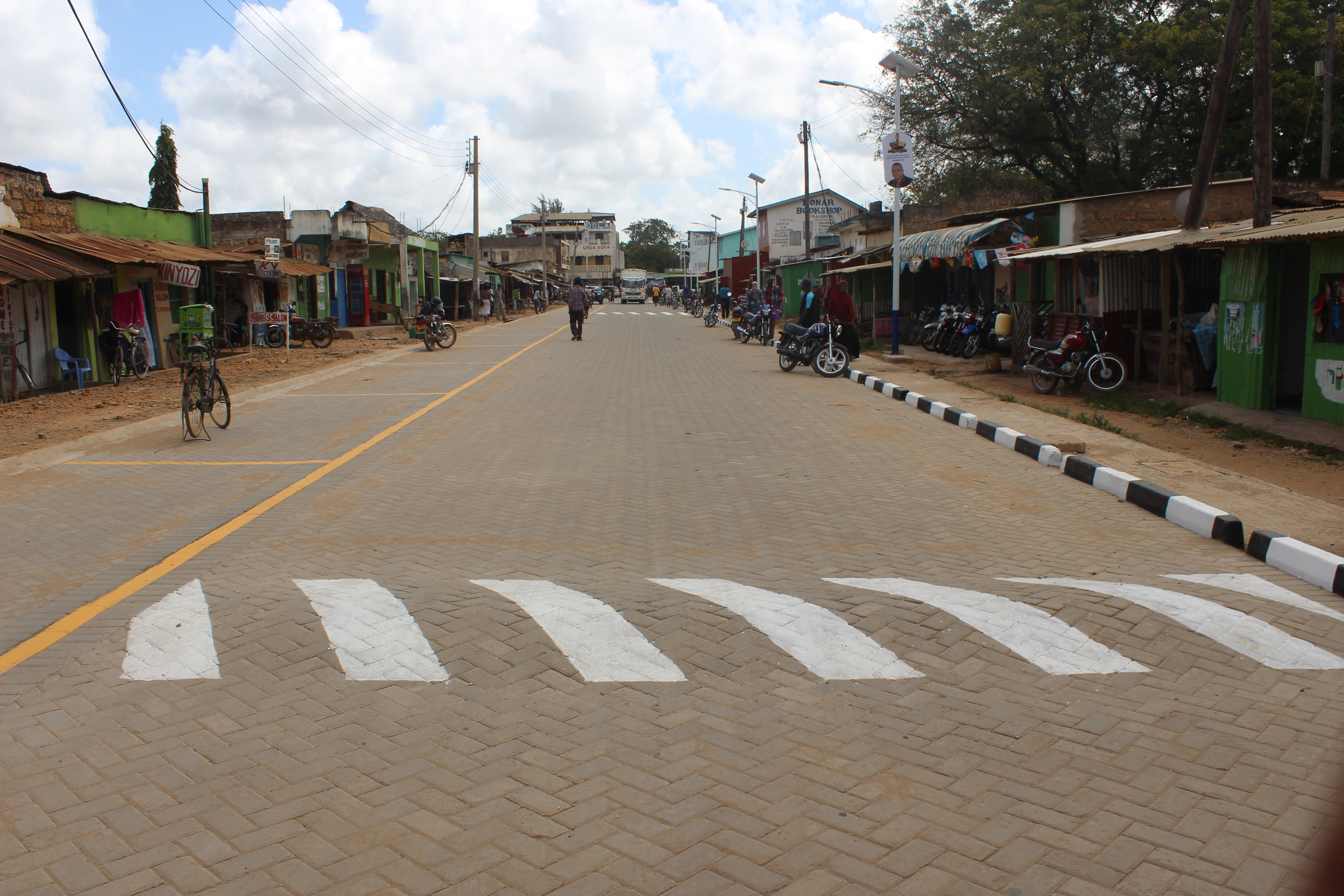 This photo represents the development of infrastructure in the small town of Lamu county. The roads were constructed during the reign of the first governor of Lamu, Issa Timamy. This is an image with the theme "Africa on the Move or Transport" from: Kenya